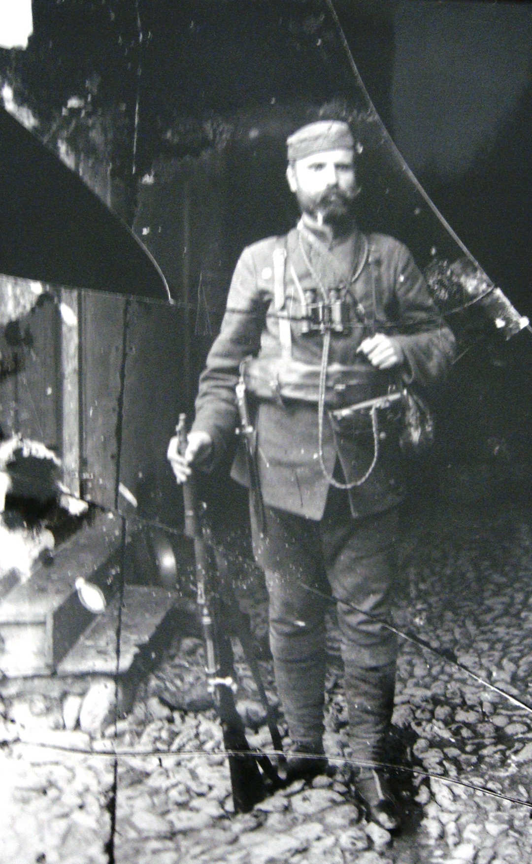 Pavle Hristov, voivode of Yeni neighborhood in Bitola. 1908 This media file is produced by Wikipedian in Residence in Category:Wikipedian in Residence at DARM in 2016.